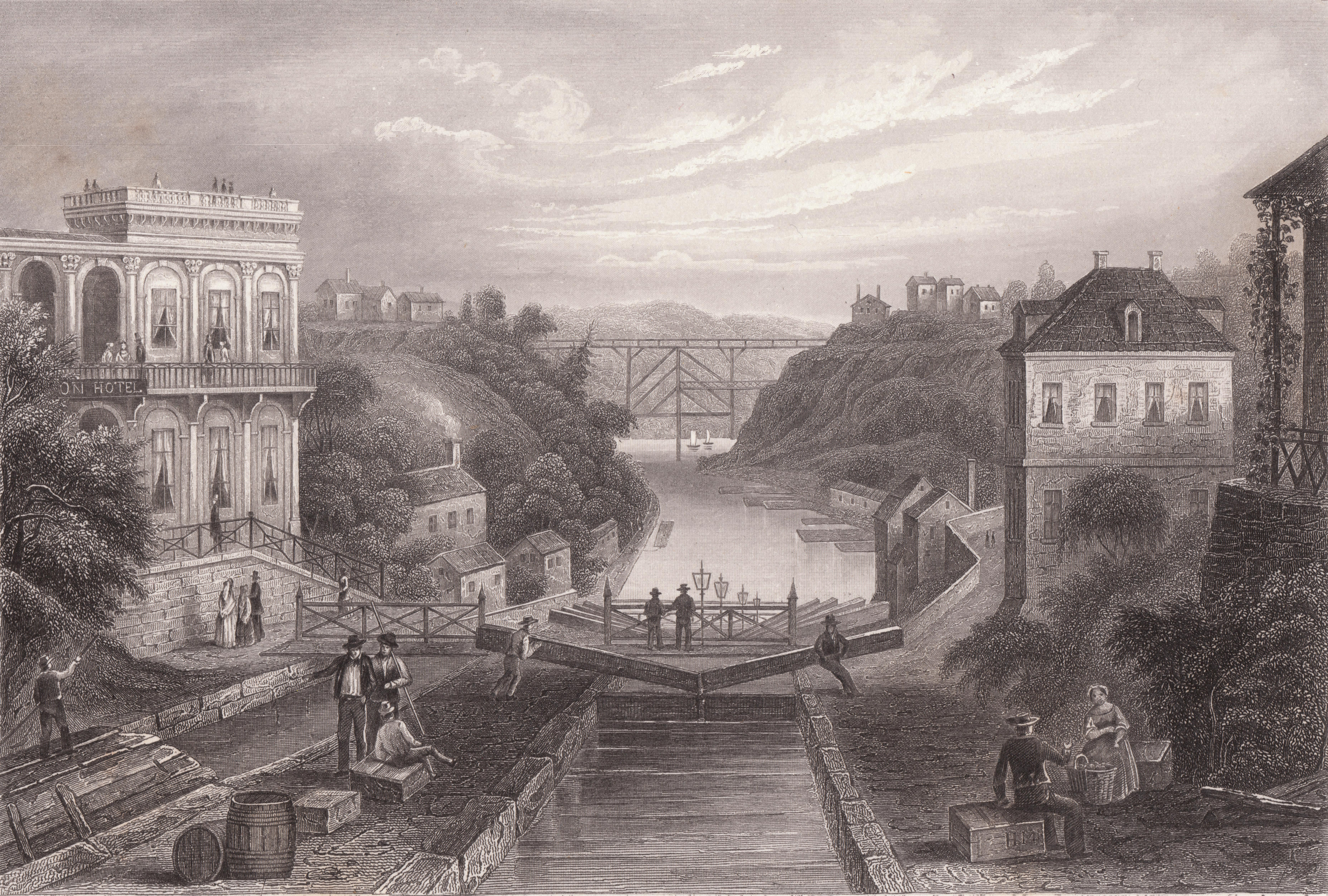 Original lithograph showing the Erie Canal at Lockport, New York c. 1855. Published for Herrman J. Meyer, 164 William Street, New York City.